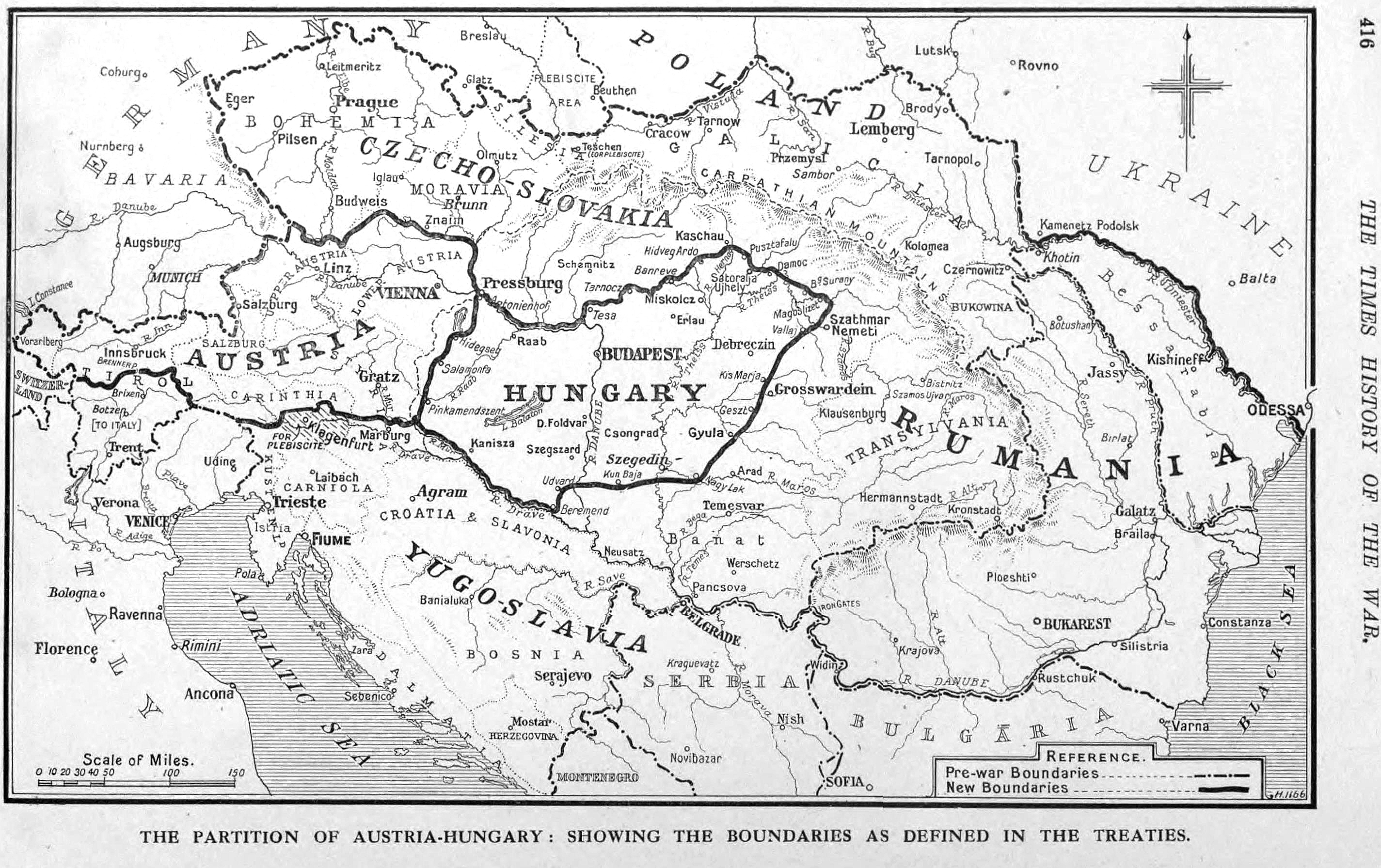 The partition of Austria-Hungary showing the boundaries as defined in the treaties